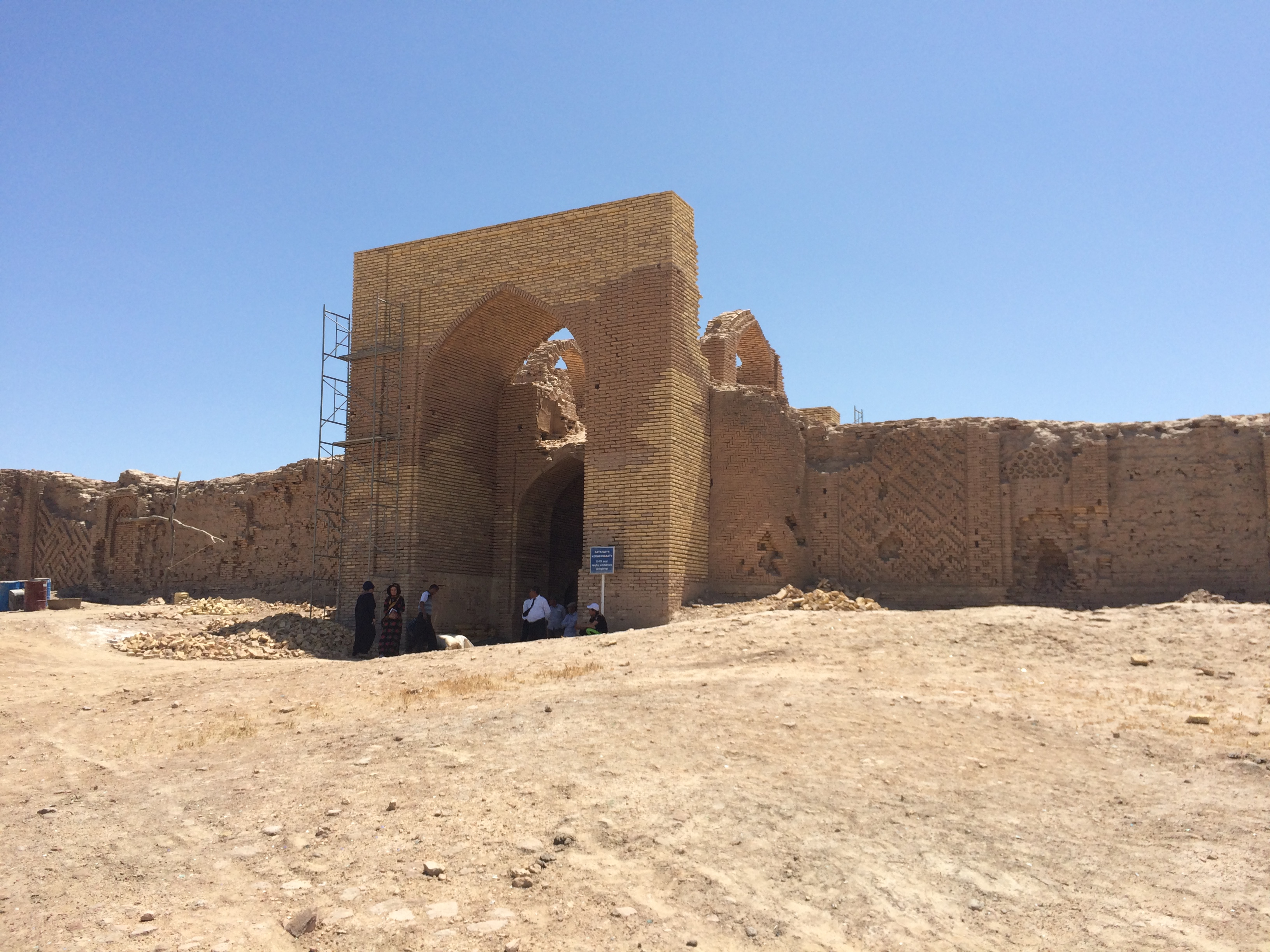 Main gate of the 11th-century Dayahatyn caravansaray in Lebap velayat, Turkmenistan